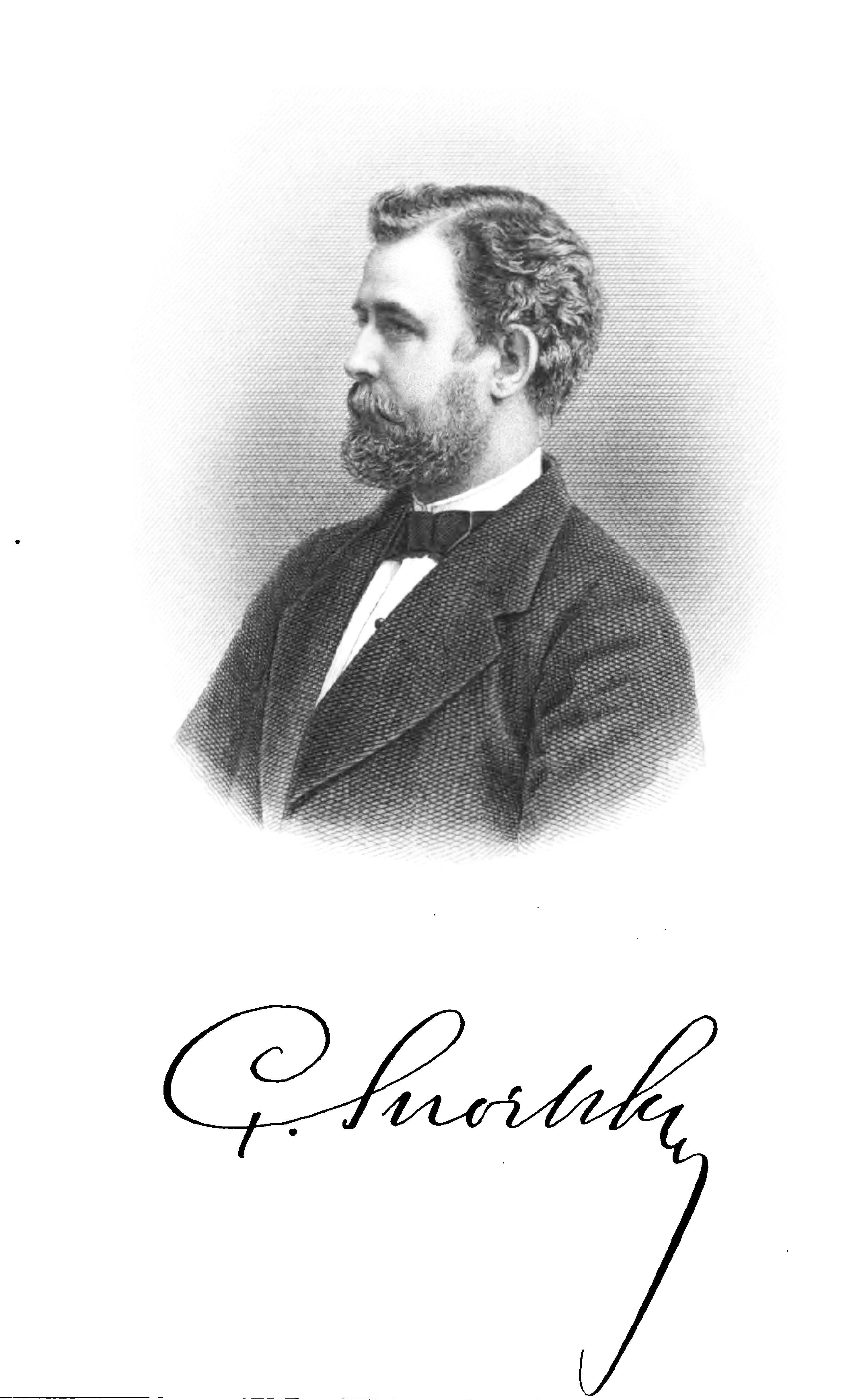 Carl Snoilsky, swedish writer and poet (1841-1903).